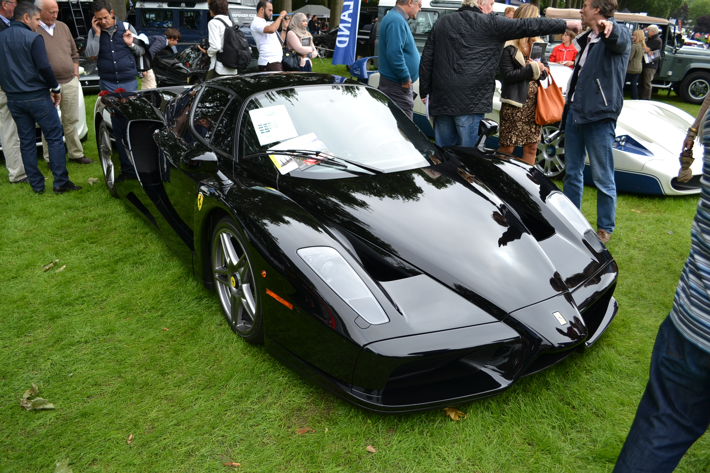 Chelsea Auto Legends 2012